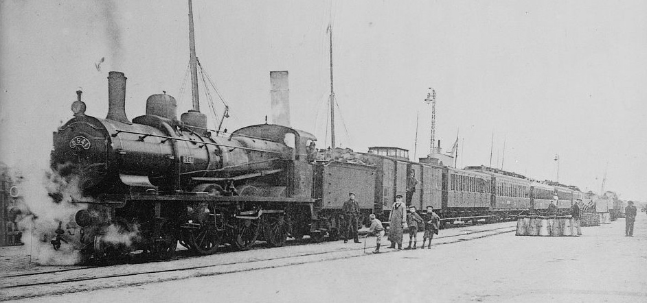 French R.R. Train - Cherbourg